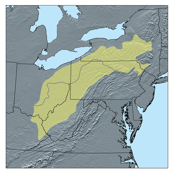 This is a map of the Allegheny Plateau as defined by Bailey's ecoregions.[1] The gray line divides the glaciated and unglaciated sections of the plateau. I, Karl Musser, created it based on USGS.